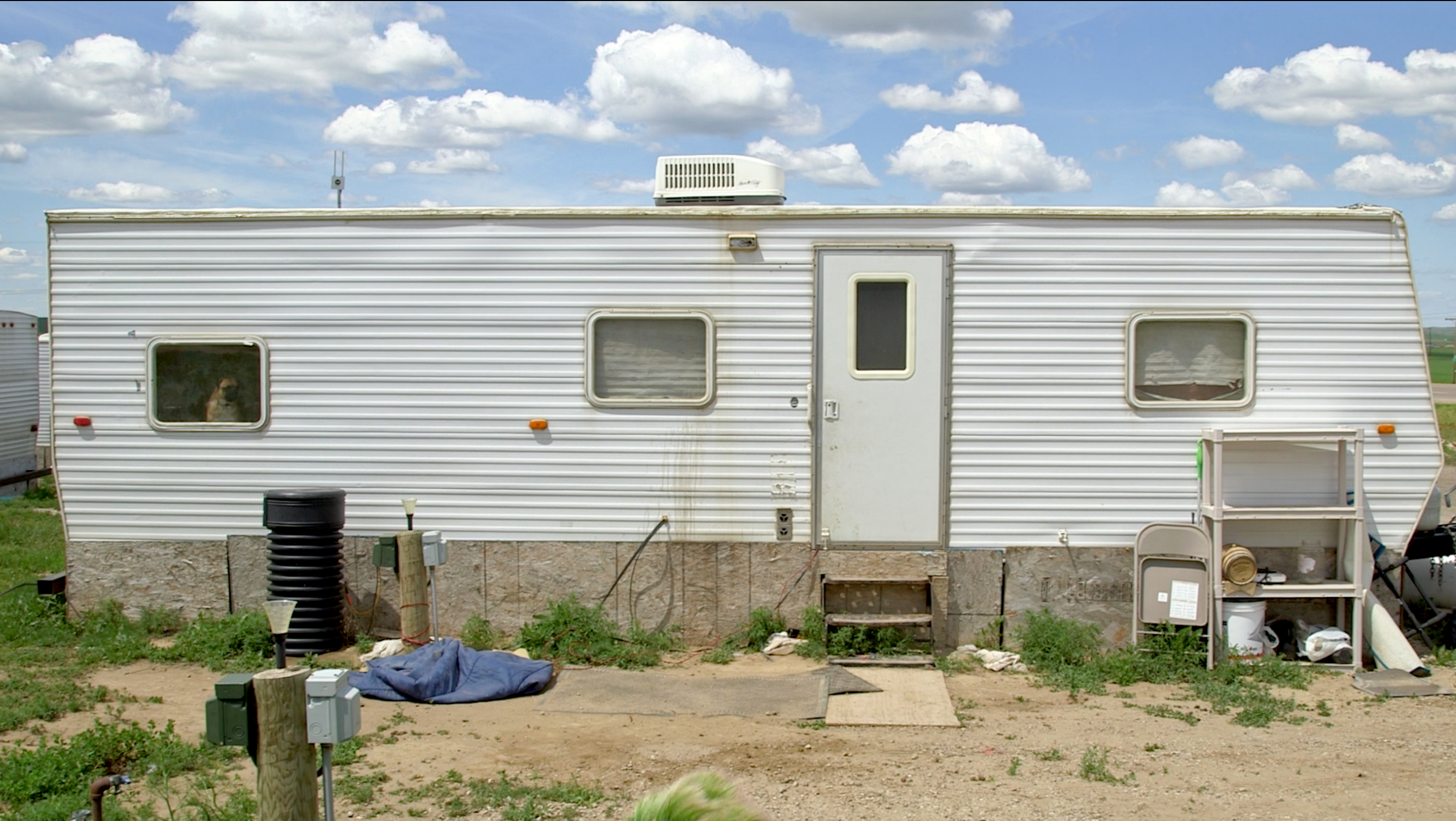 FEMA Trailer image. The image was created for a video about the potentially hazardous conditions, resale and use of FEMA trailers, entitled Where Have All the Trailers Gone?.